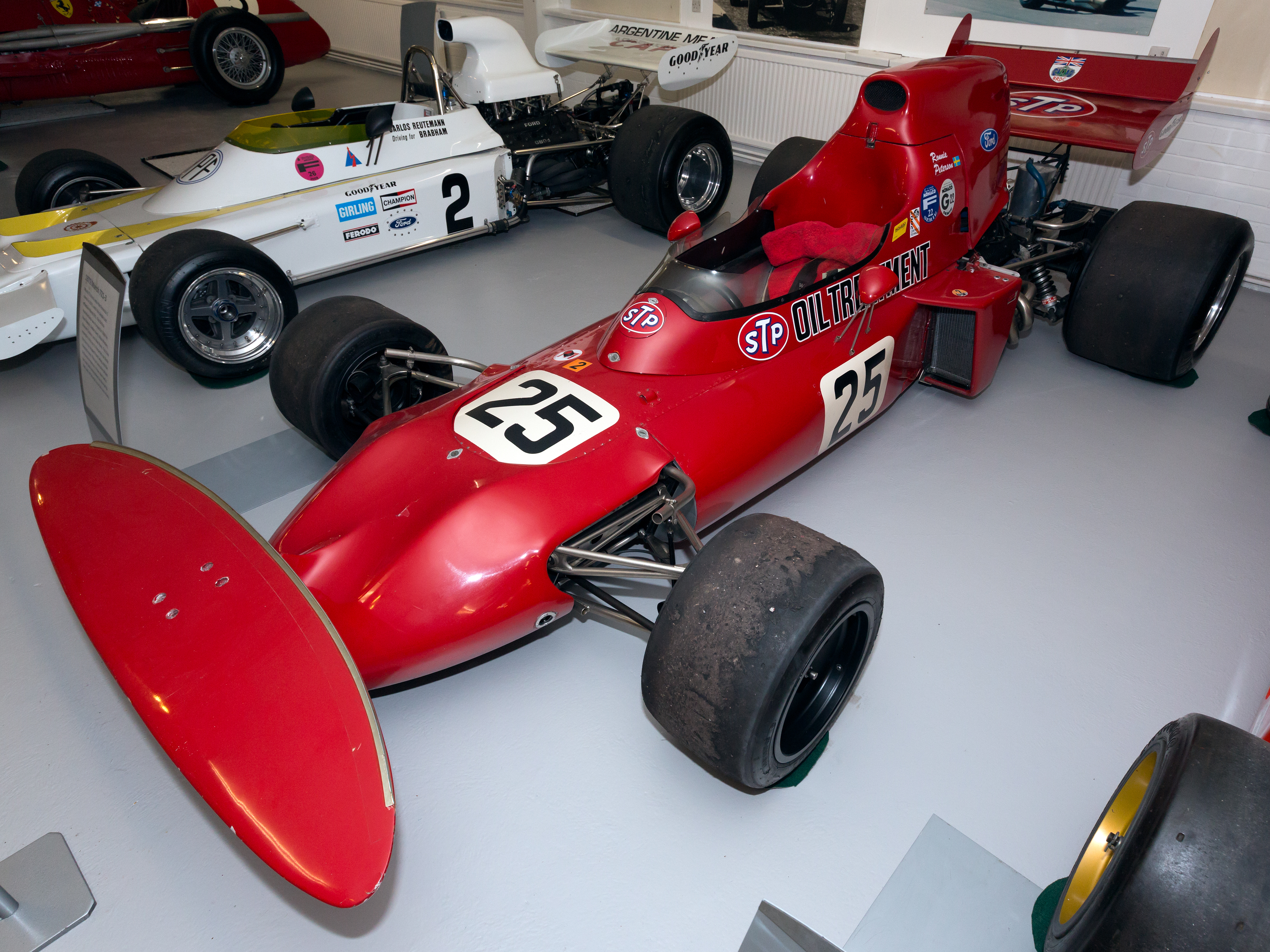 1972 March 711-3